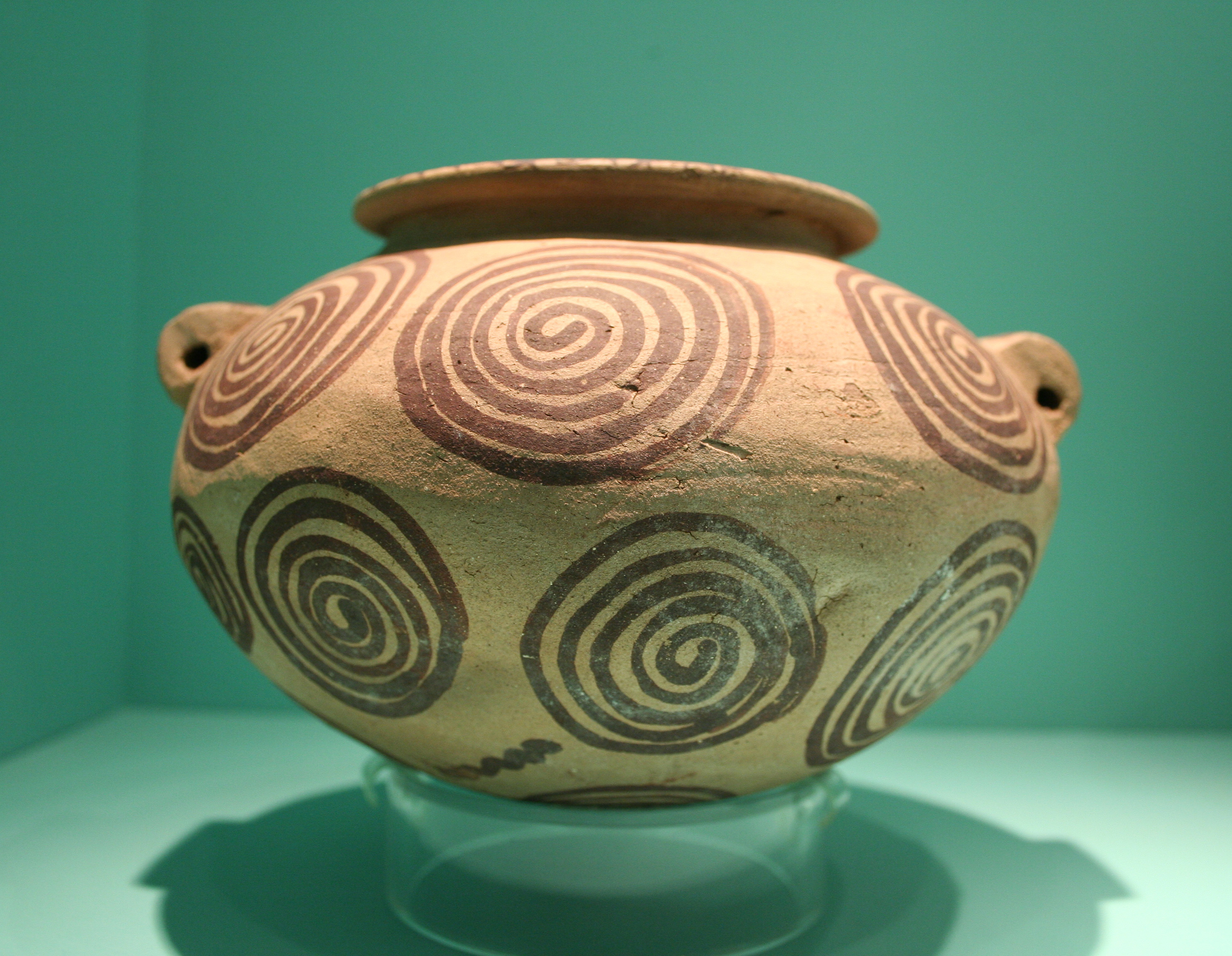 Roemer- und Pelizaeus-Museum, Hildesheim